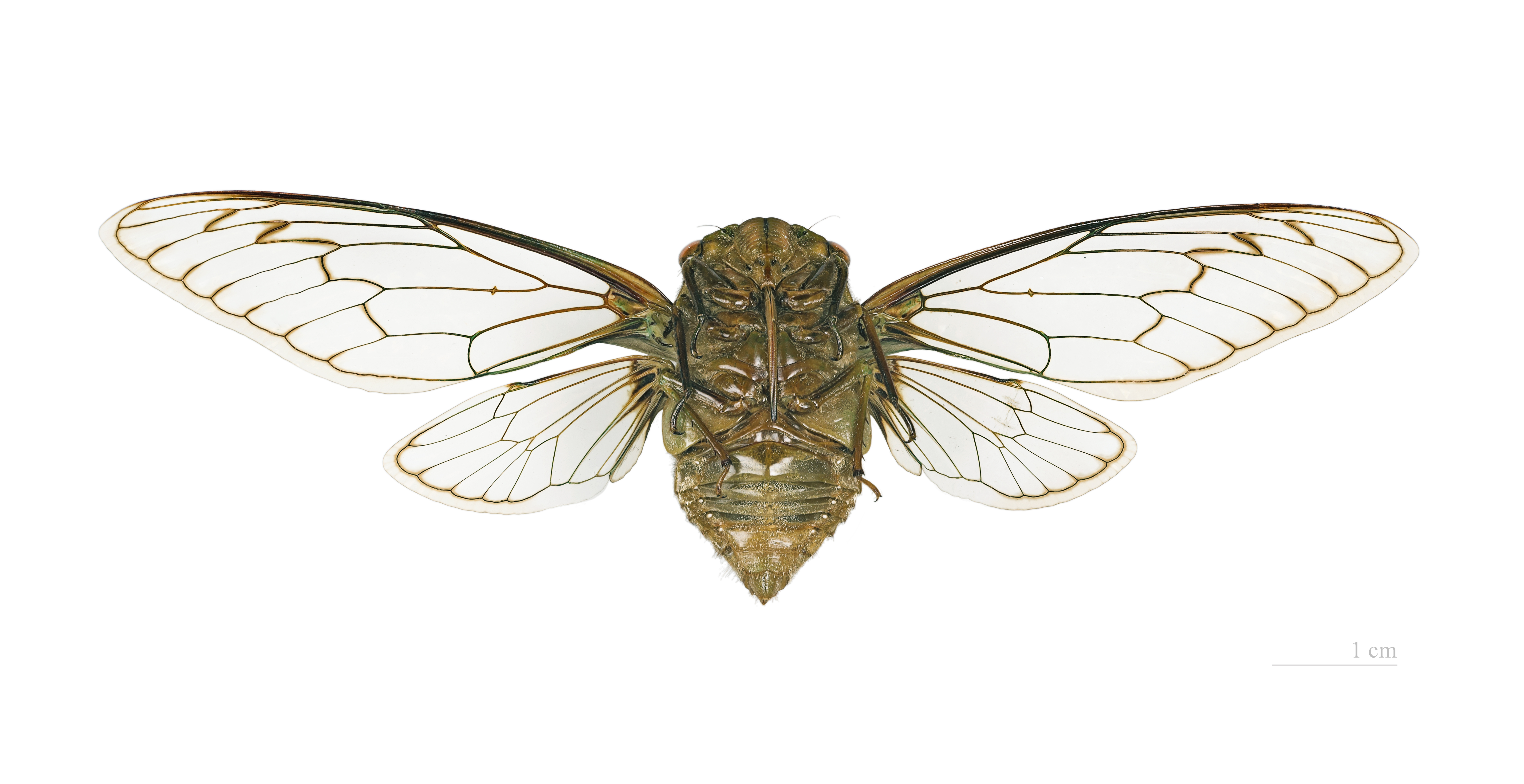 Cicada - △ Ventral side Locality : “Rue Pasteur ” Cayenne, French Guiana